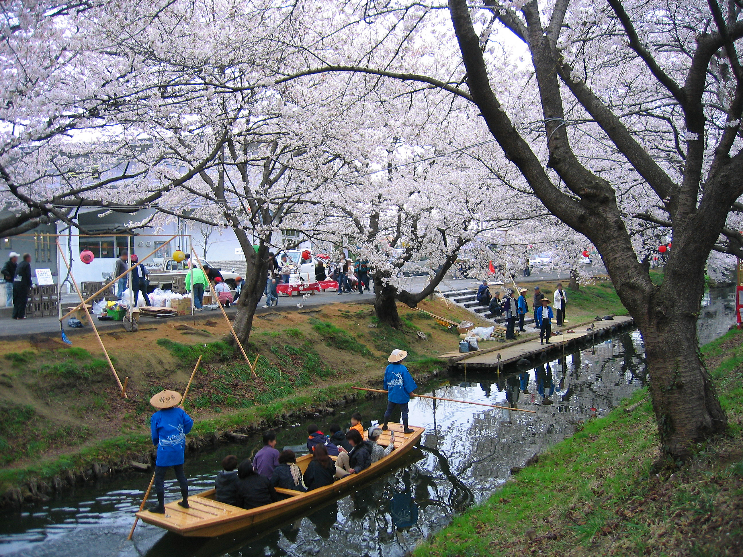 A boat in cherry blossoms